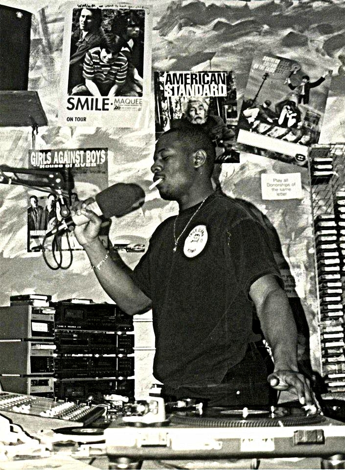 DJ Benzo in broadcast booth. The station was located in the basement of the Ellison Campus Center.